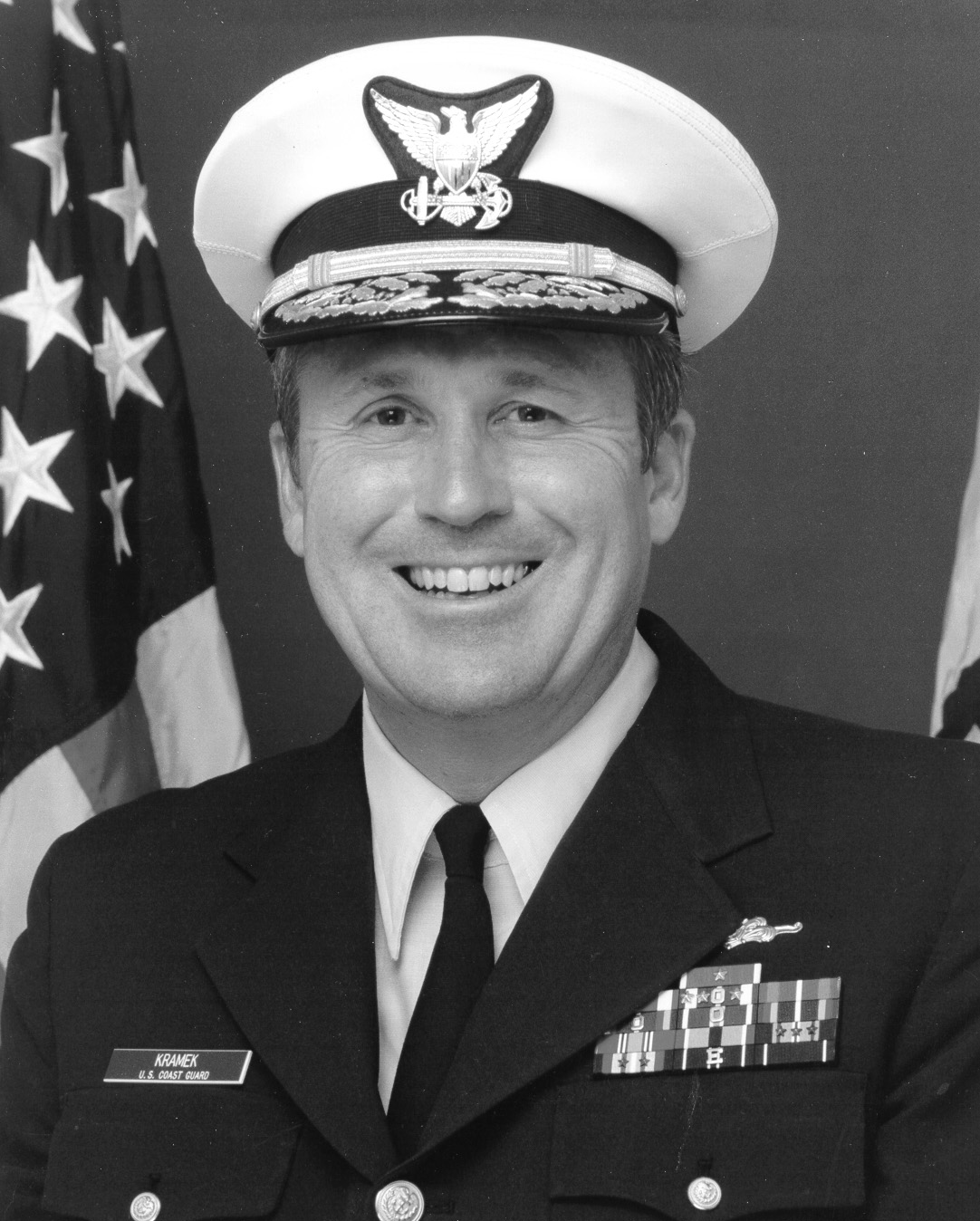 Admiral Robert Edward Kramek, USCG